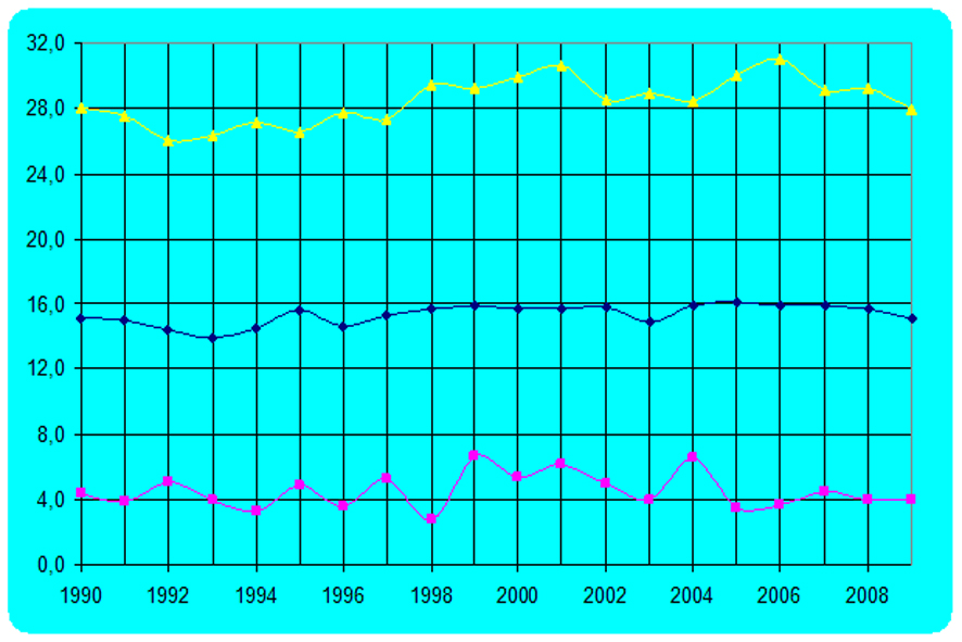 Perennial course of sea water temperature. (T average, T min, T max)